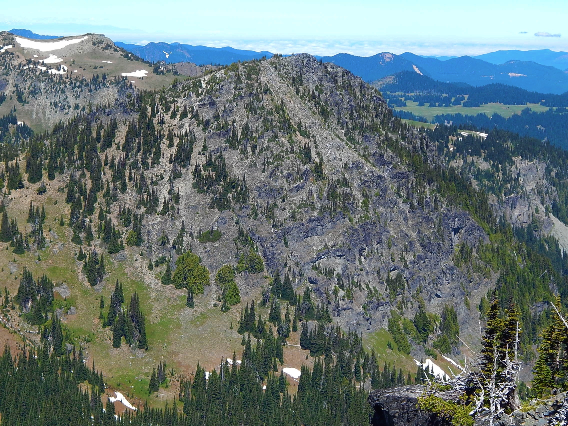 McNeeley Peak in Mount Rainier National Park seen from Sourdough Ridge